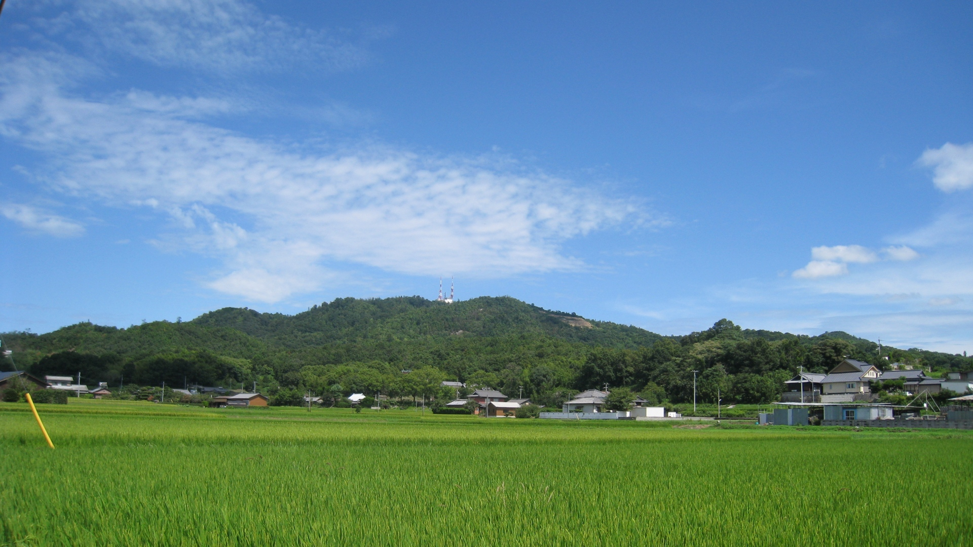 view of Maedayama, Takamatsu City, Kagawa Prefecture, Japan.